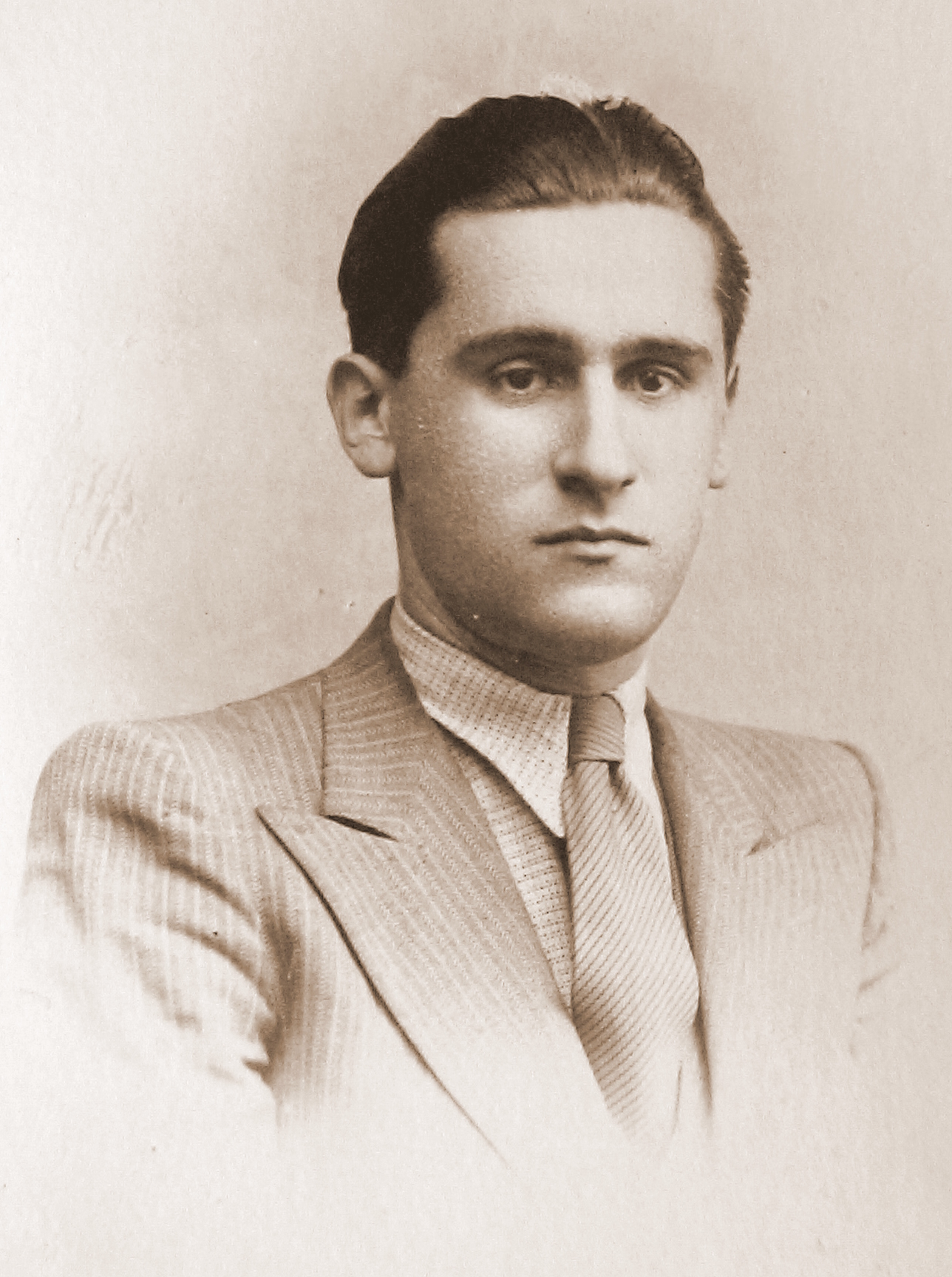 Toma Barbu Socolescu. Picture taken around 1930 We are the only heirs and descendants of Toma Barbu Socolescu (died in 1977 in Bucharest) and therefore proprietary of all his intellectual rights.